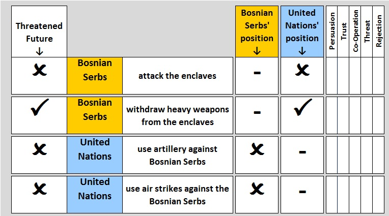 Diagram illustrating the process of Confrontation Analysis